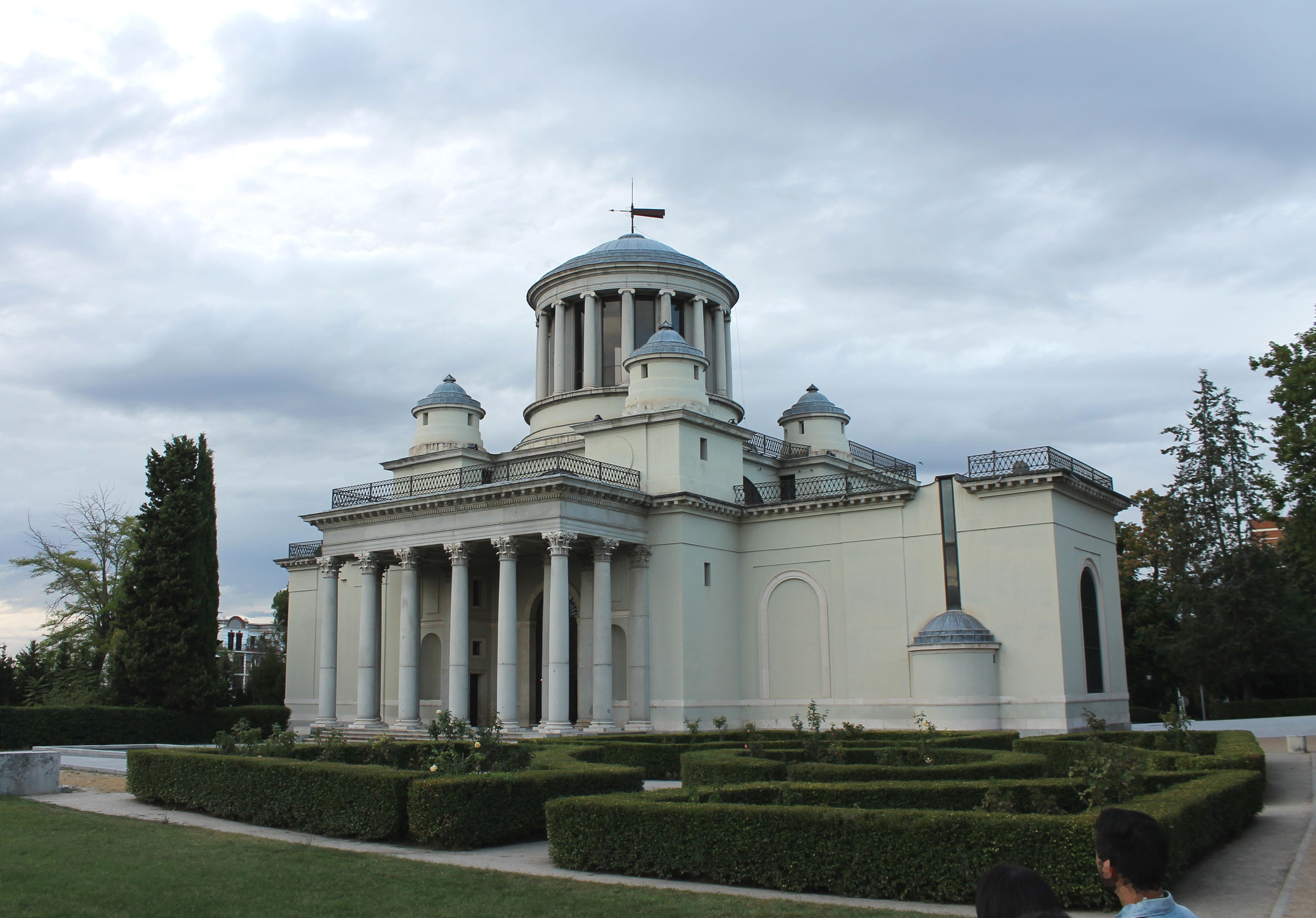 Façade of the Royal Observatory of Madrid (Spain).